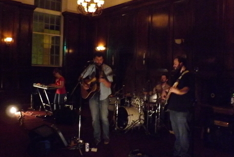 the band Elonzo performing at The Courtroom at Gettys Art Center on May 11, 2012